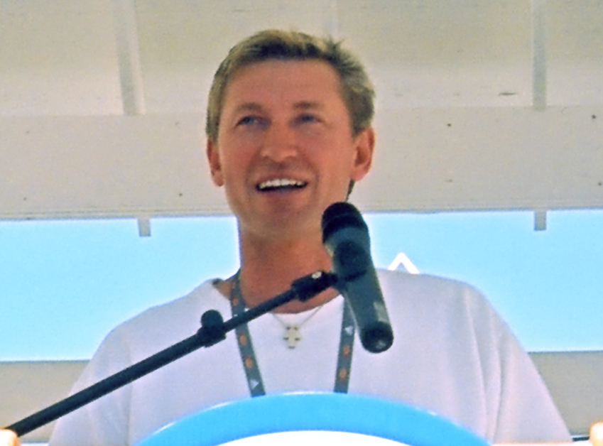 Wayne Gretzky, speaking at Sir Winston Churchill Square in downtown Edmonton, during the 2001 IAAF World Championships in Athletics. Photo by User:Kmf164. (closeup, cropped version of Image:Gretzky aug2001.jpg.)